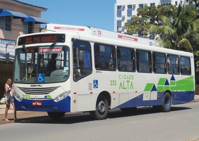 por: Rafael Santos Moreira